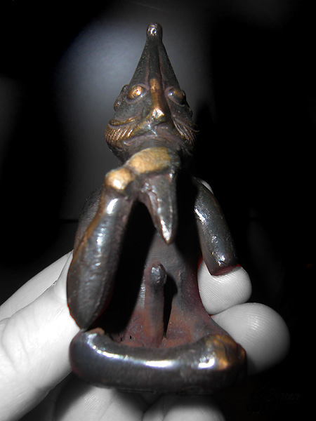 A commersial replica of the bronze-figure of the god Freyr found at the farm Rällinge in Lunda parish, Södermanland, Sweden.